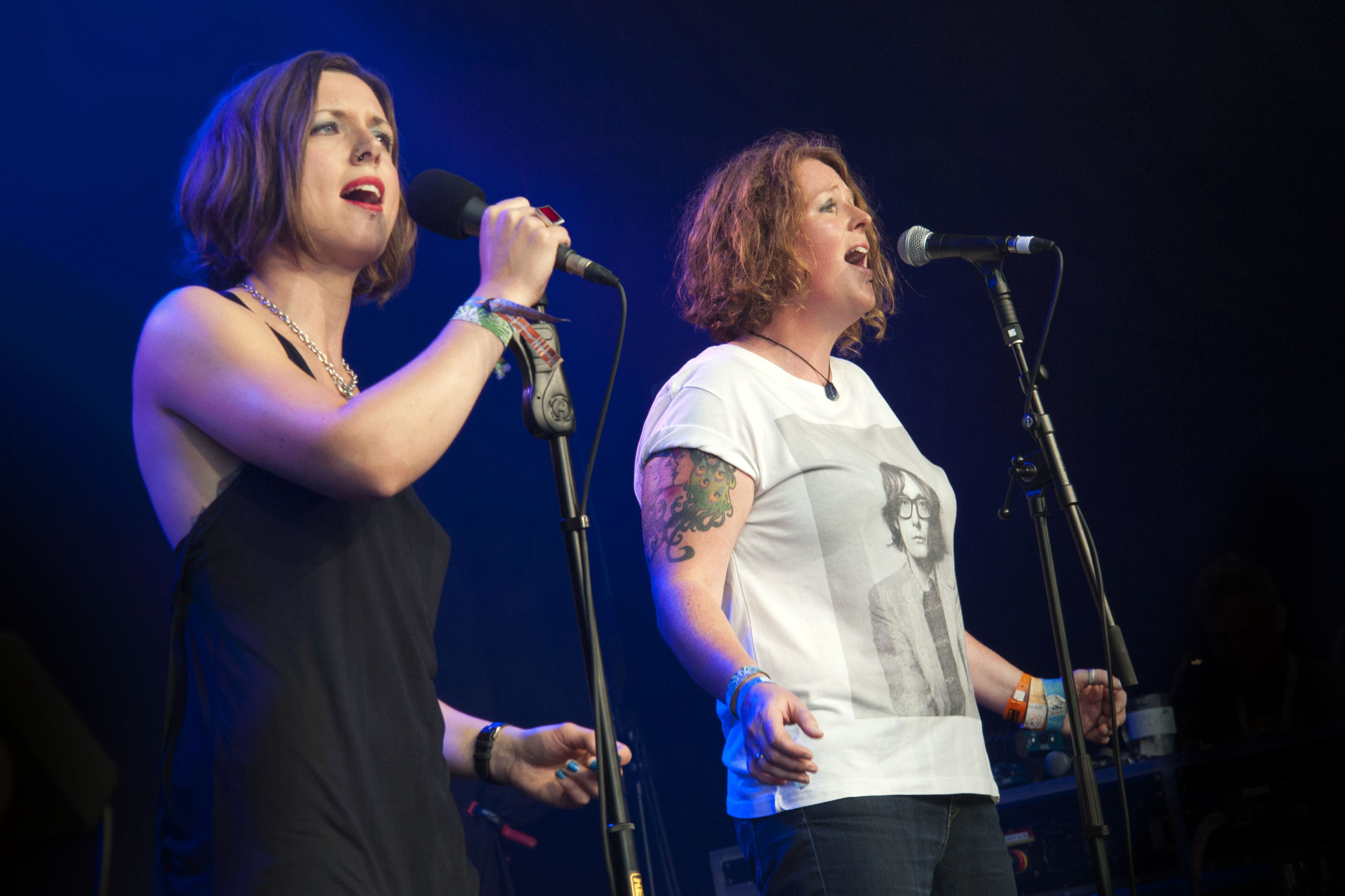 Cambridge Folk Festival 50th Anniversary